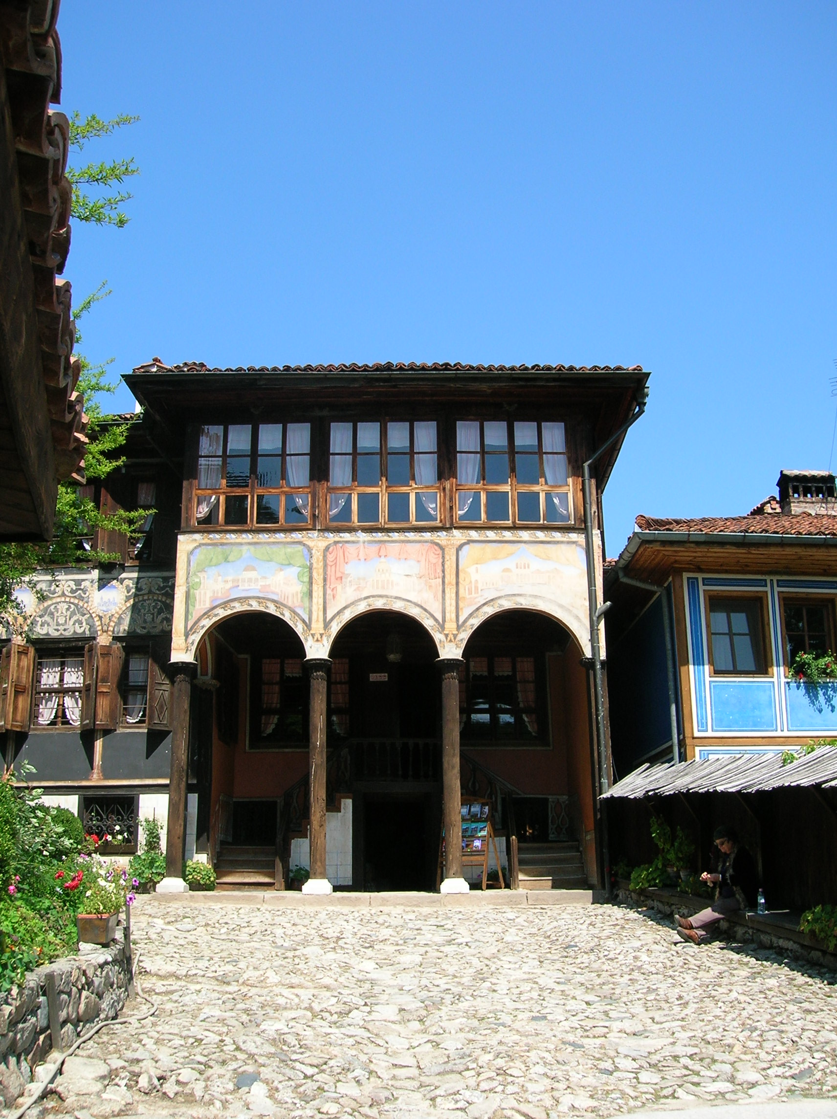 Oslekov House, in Koprivshtitsa (Bulgaria).